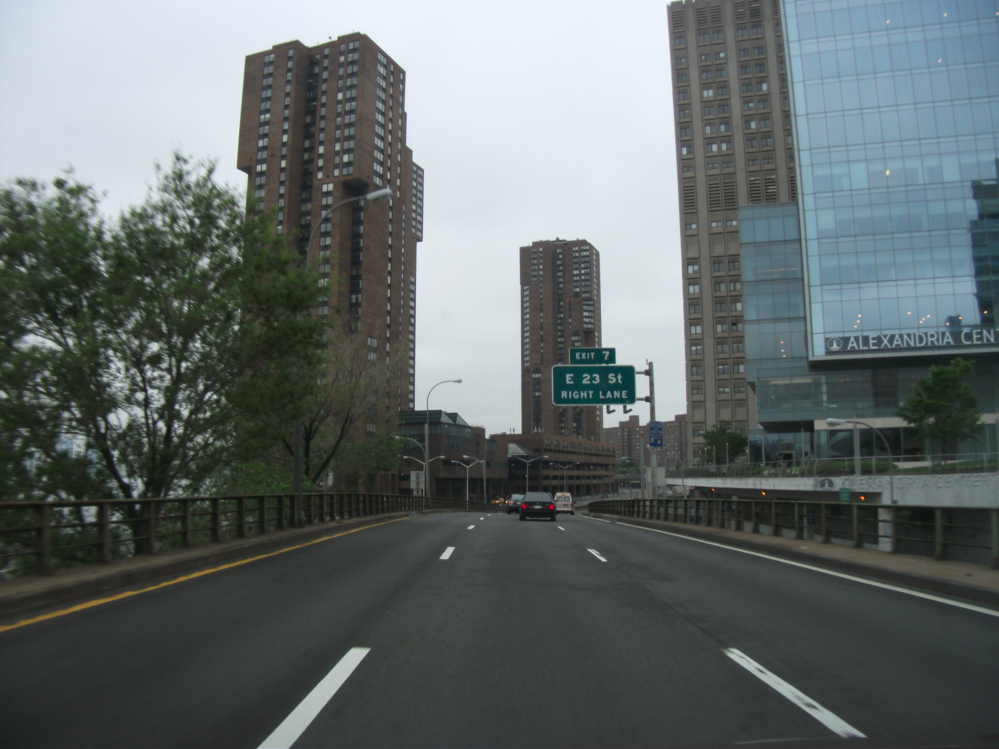 FDR Drive - New York City, New York